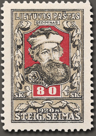 Opening of Lithuanian National Asembly. Grand Duke of Lithuania Gediminas. Designed by Adomas Varnas. Issued on August 25, 1920. Michel catalog No. #83. MNH.